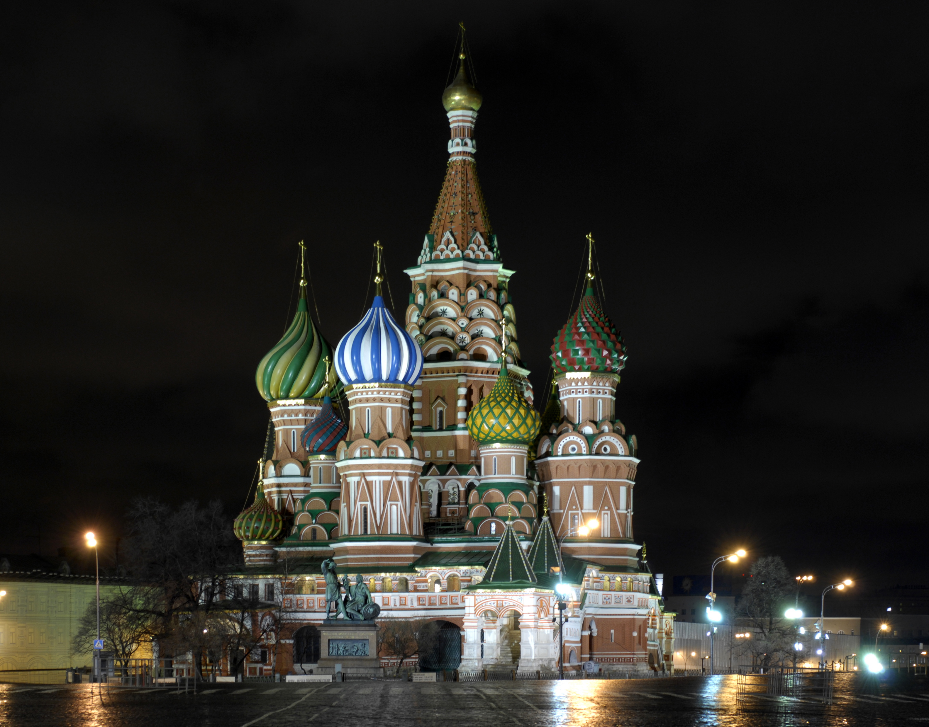 Night view of Saint Basil's Cathedral in Red Square (Moscow, 2007).